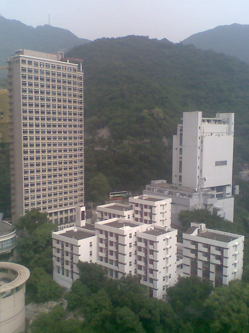 Ricci Hall, 93 Pokfulam Road, Hong Kong